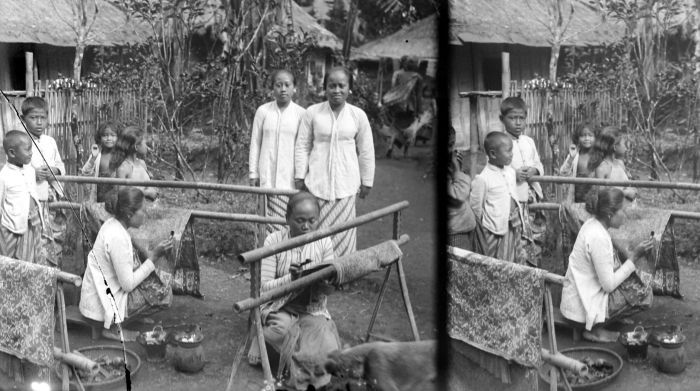 Women busy with batiking loin-cloths in Wonosobo, Java